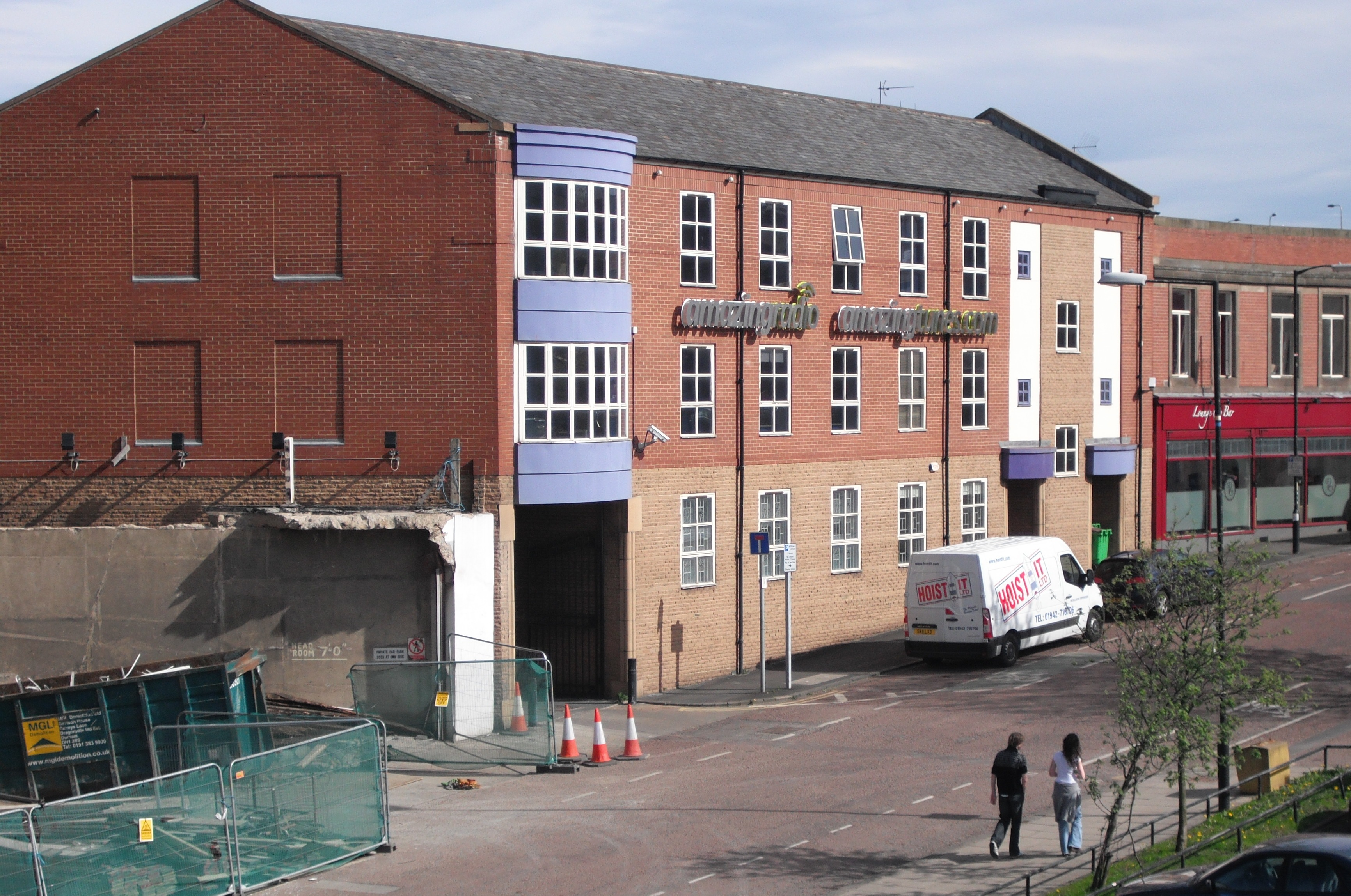 The studios and offices of digital radio station Amazing Radio, on Church Street in Gateshead. The building was formerly used as the base of 100-102_Century_Radio